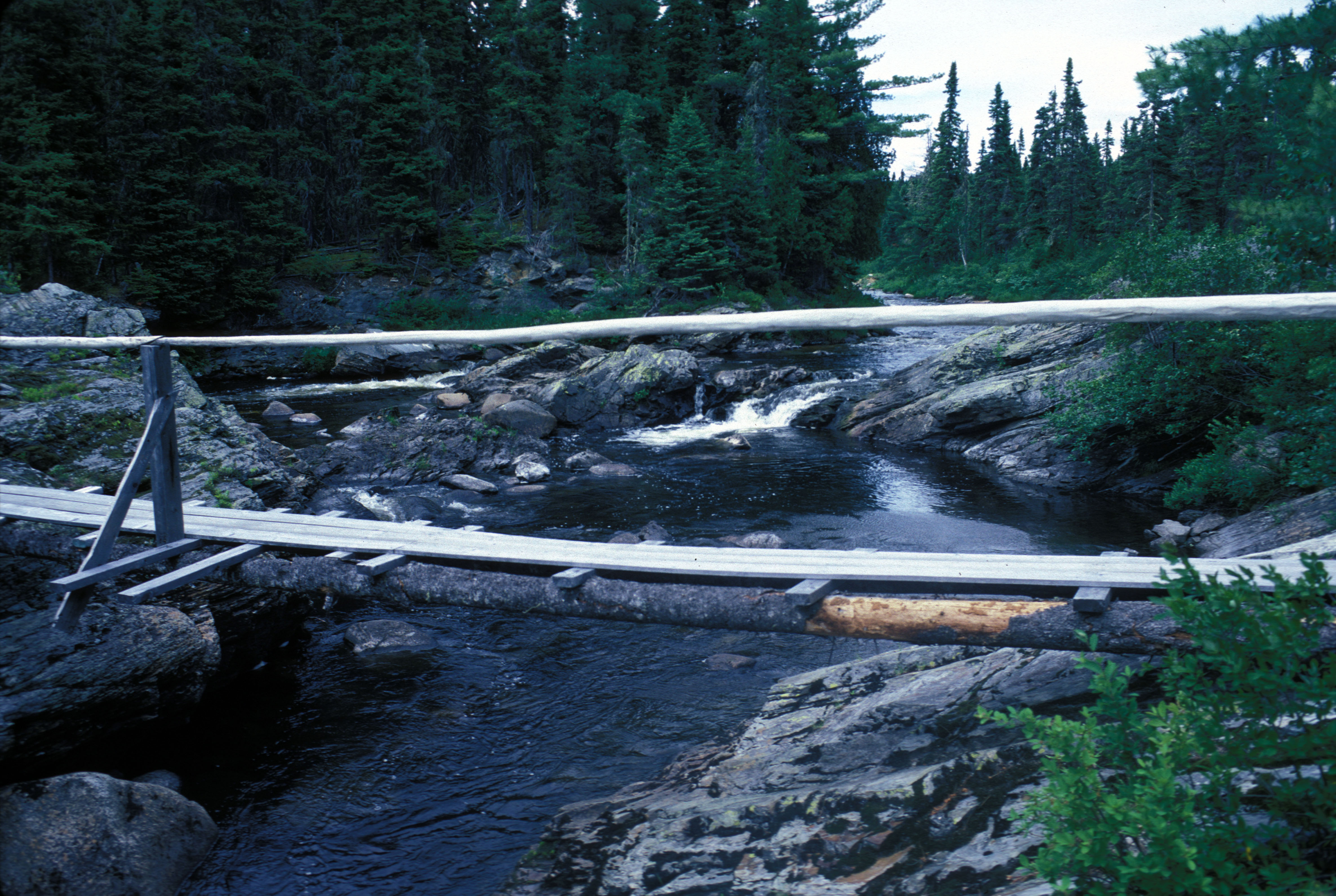 Lower North Branch Little Southwest Miramichi River, a tributary to the Little Southwest Miramichi River, in north-central New Brunswick, Canada (IR Walker 1986).